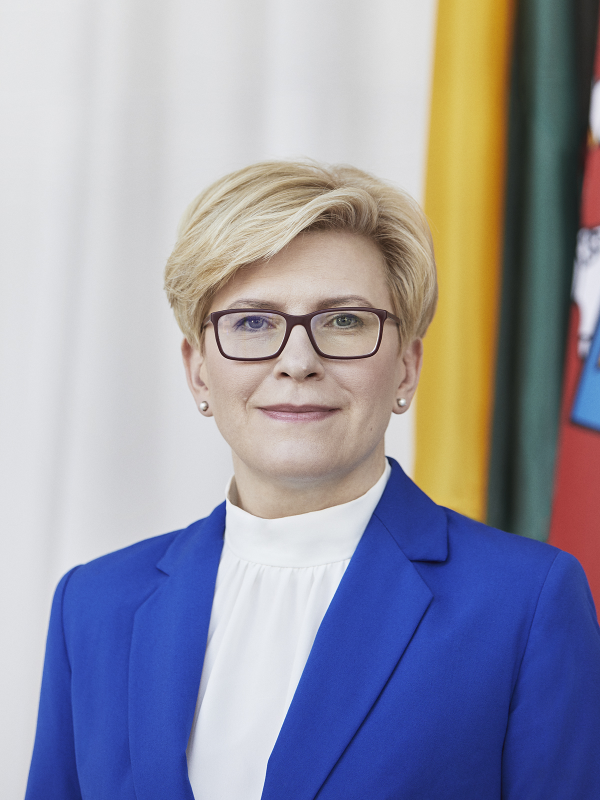 Portait of Ingrida Šimonytė